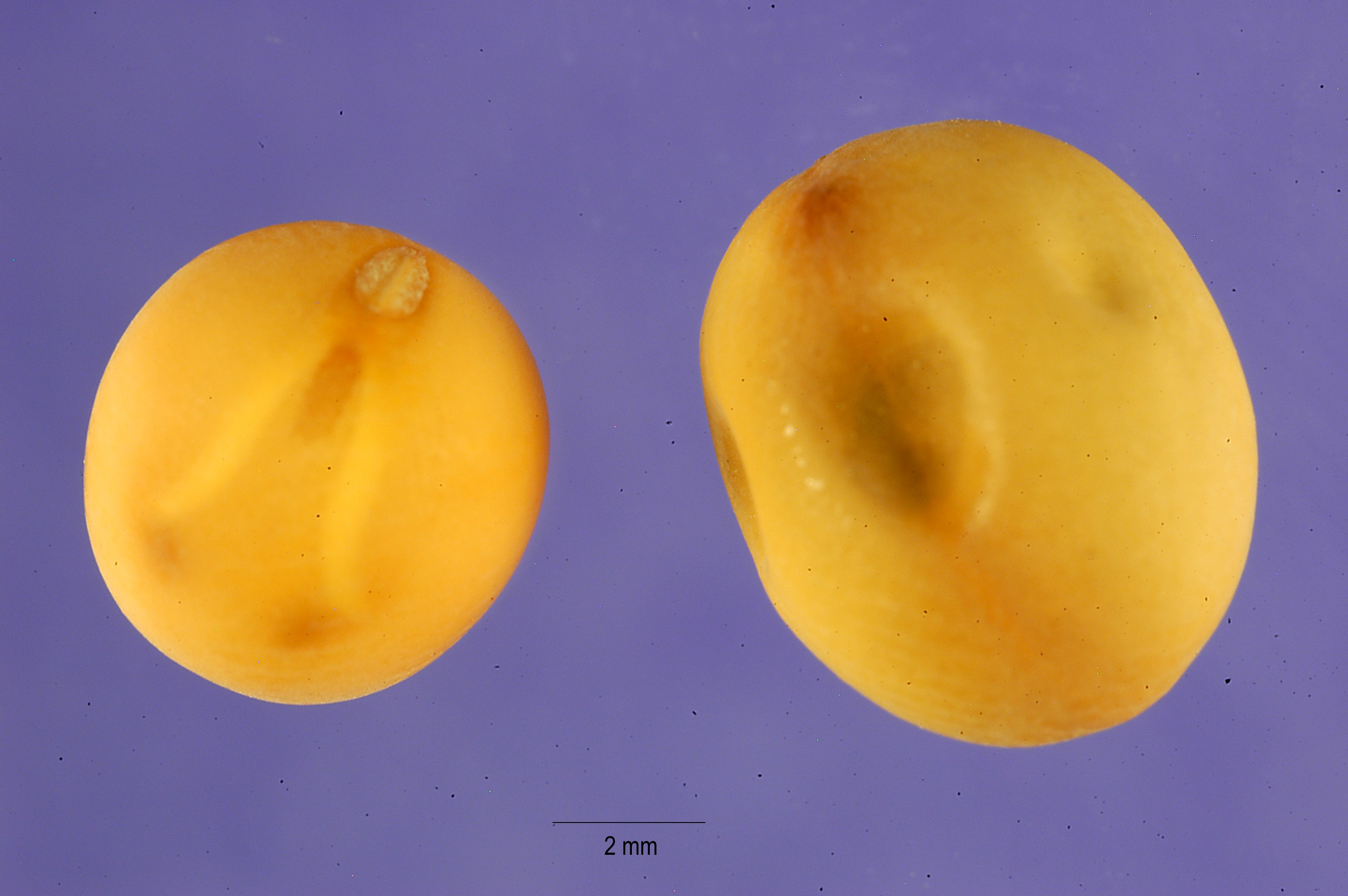 Pisum sativum L. - garden pea PISA6